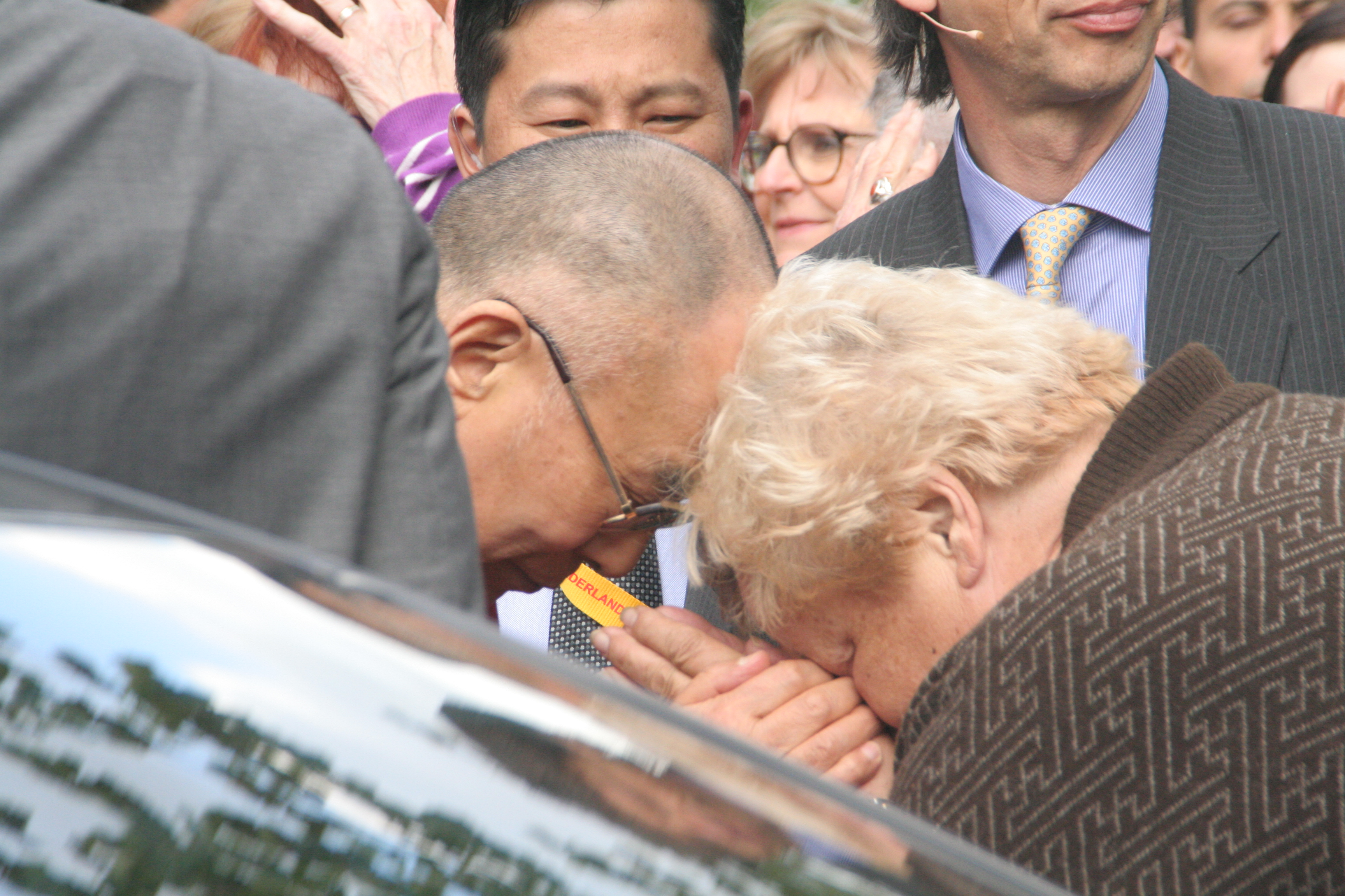 Erica Terpstra and Tenzin Gyatso the 14th Dalai Lama were at the Erasmus University Rotterdam taking part in the first Education of the Heart Symposium 12 May 2014 in commemoration of this moment the Dalai Lama planted a tree, after the ceremony the photo was taken. On the plaque is written: "We will educate present and future leaders who use the warmth of the hearts to keep their heads cool and their hands productive"